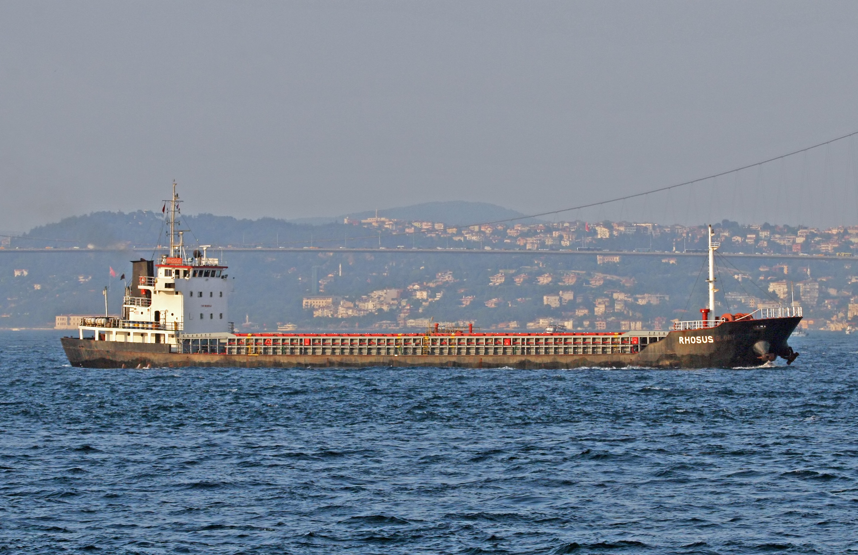 General cargo ship Rhosus passing Istanbul on 30 July 2011. The vessel was later abandoned in Beirut and sank in 2018. The cargo, stowed in a nearby warehouse, caused the 2020 Beirut explosion.